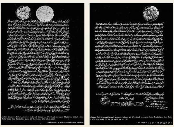 Concession of Sabah by the Sultan of Brunei to Baron von Overbeck, December 29th, 1877 and by the Sultan of Sulu on January 22nd, 1878.